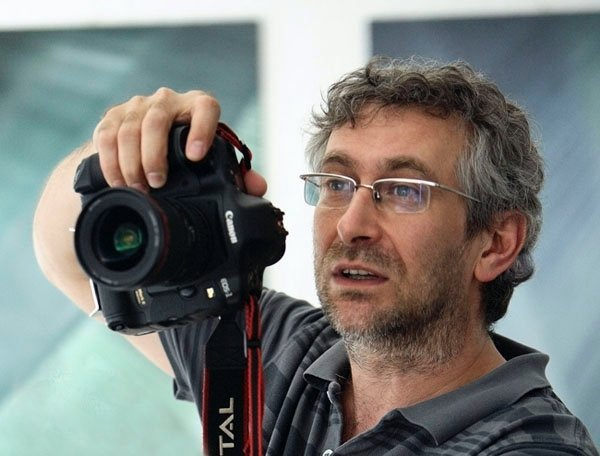 The Italian photographer Davide Cerati